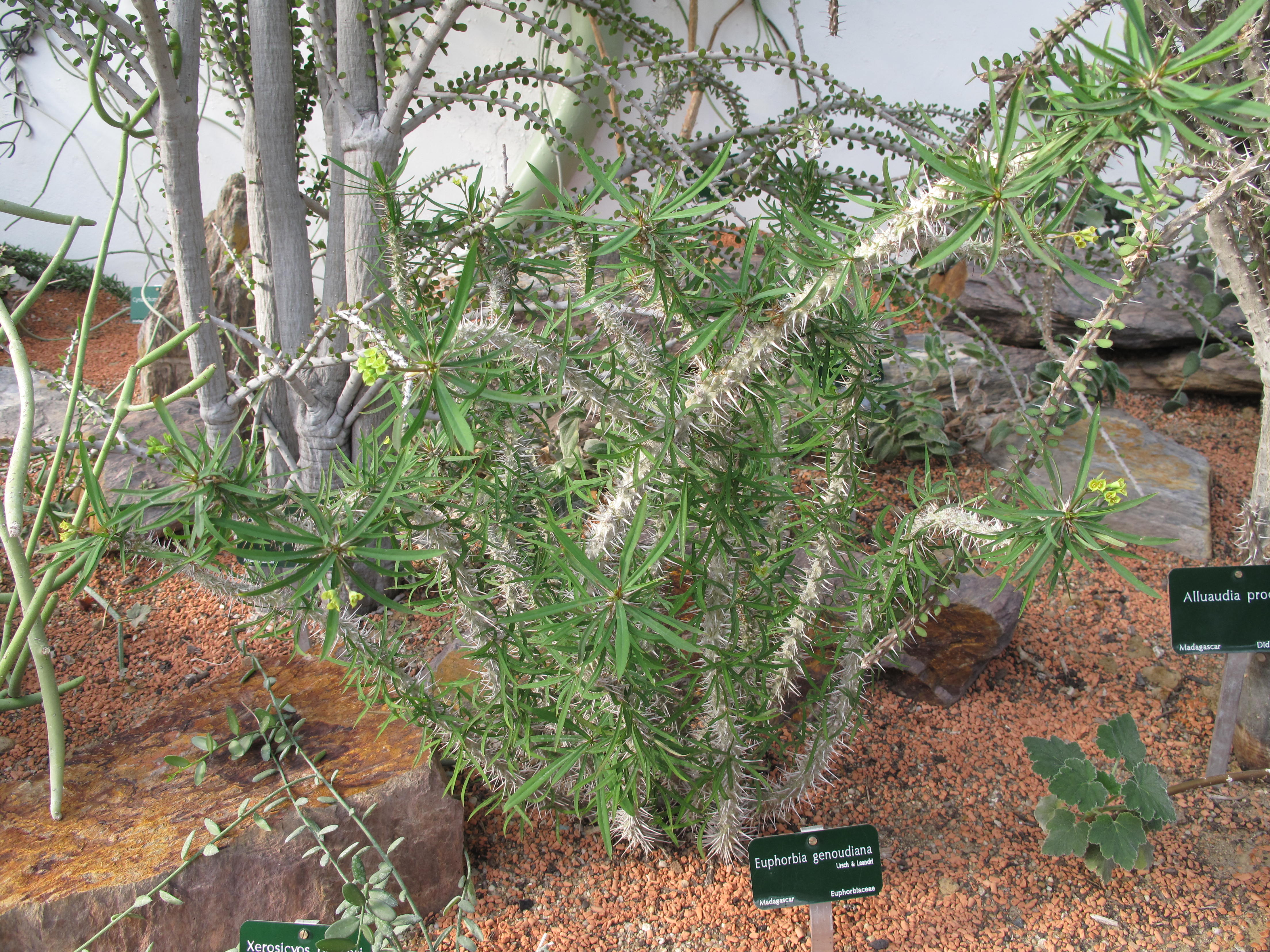 Euphorbia genoudiana in a greenhouse of the Jardin des Plantes in Paris.